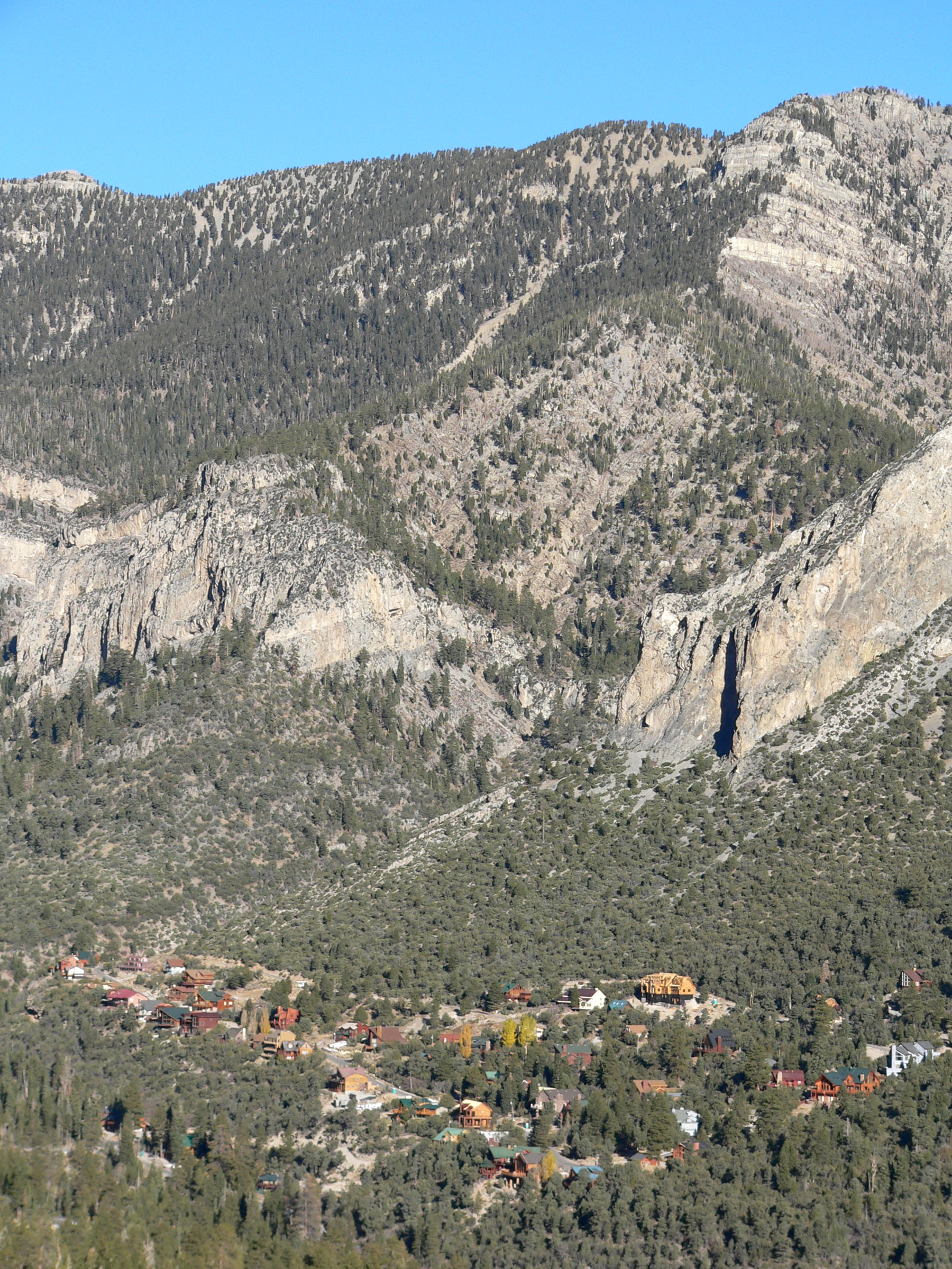 Houses of Mount Charleston — near Charleston Peak in the Spring Mountains, southern Nevada